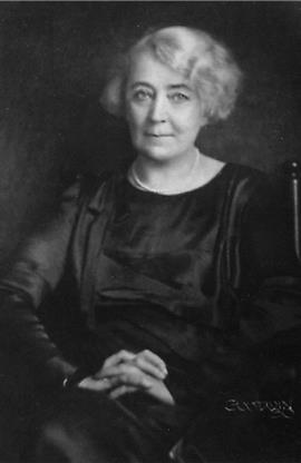 Portrait of the Swedish physician and women's rights activist Alma Sundquist (1872-1940)